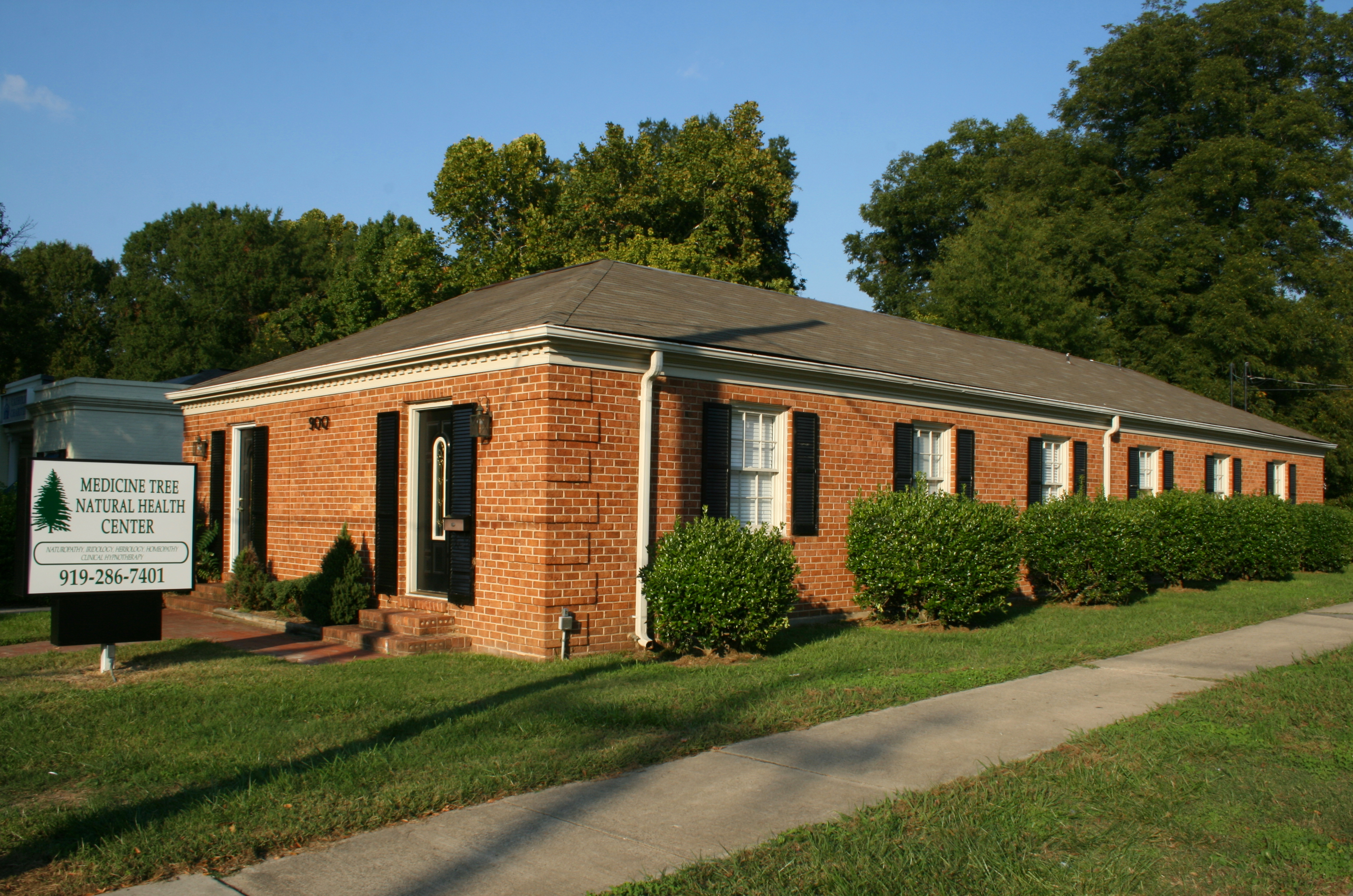 The Medicine Tree Natural Health Center, a naturopathy, iridology, herbology, homoeopathy, and clinical hypnotherapy centre at its former location of 900 Broad Street in Durham, North Carolina.